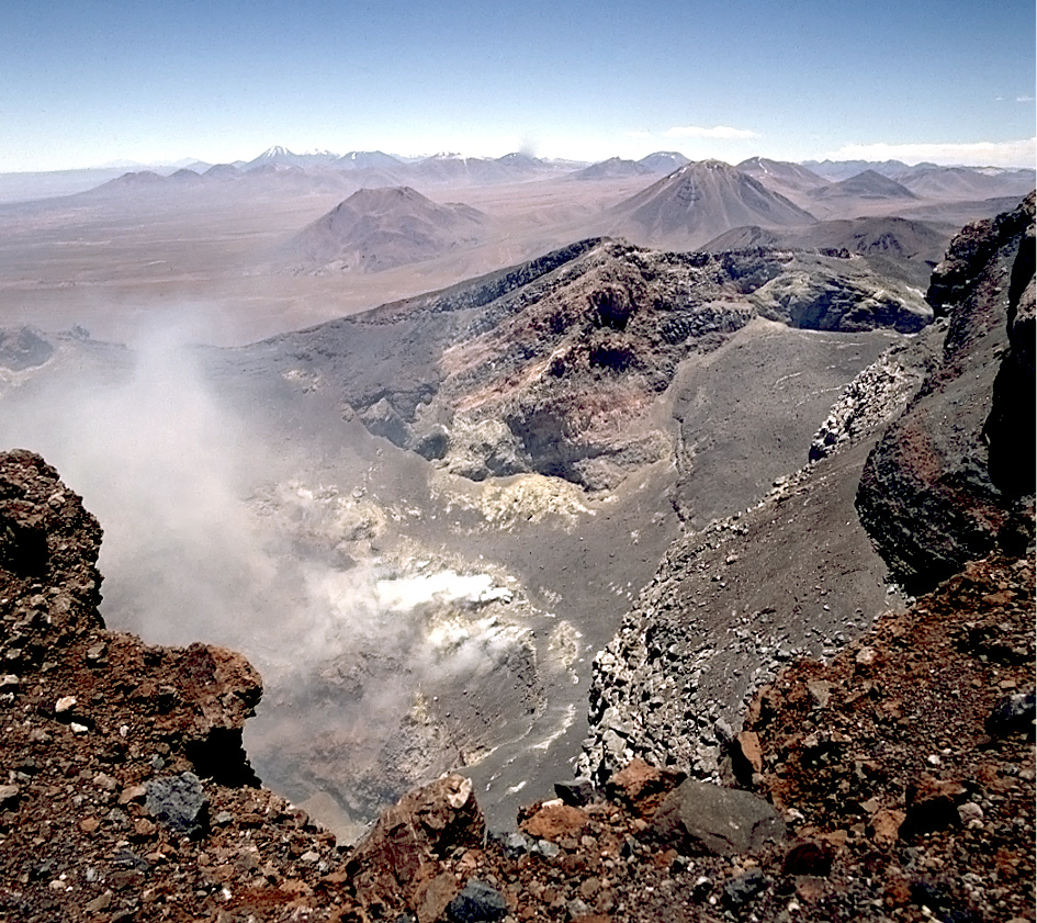 The crater of volcano Láscar in Chile, view inside the crater